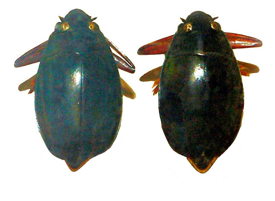 Dineutus loriae from New Guinea